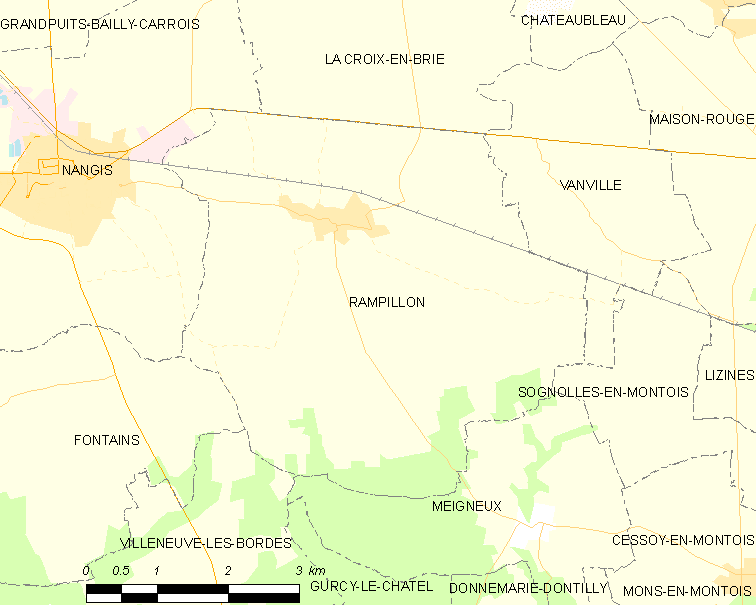 Map of French municipality Rampillon